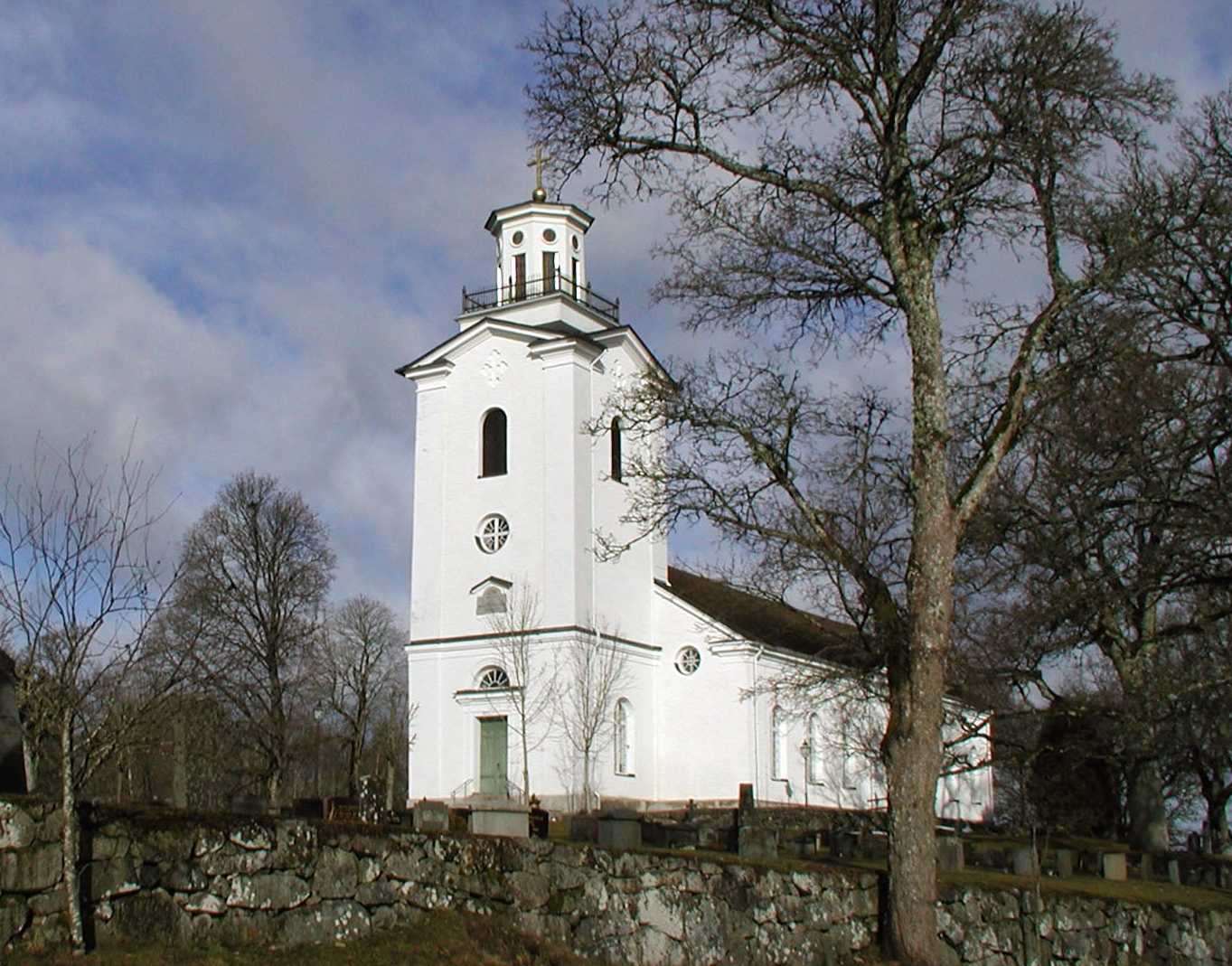 Korsberga Church. The church building was started in 1855 under the leadership of Jonas Malmberg, Vaxjo designed by Carl Robert Palmer. The inauguration took place in 1862 and förättades of Bishop Henrik Gustav Hultman .